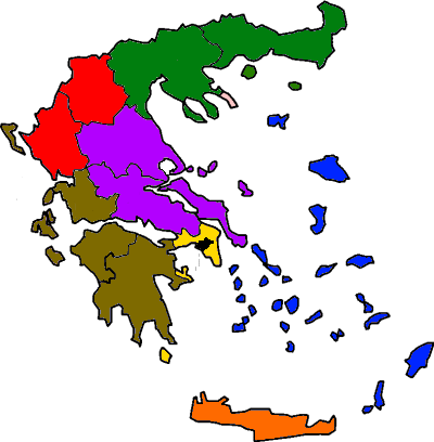 Map of Greece with General Directorates.